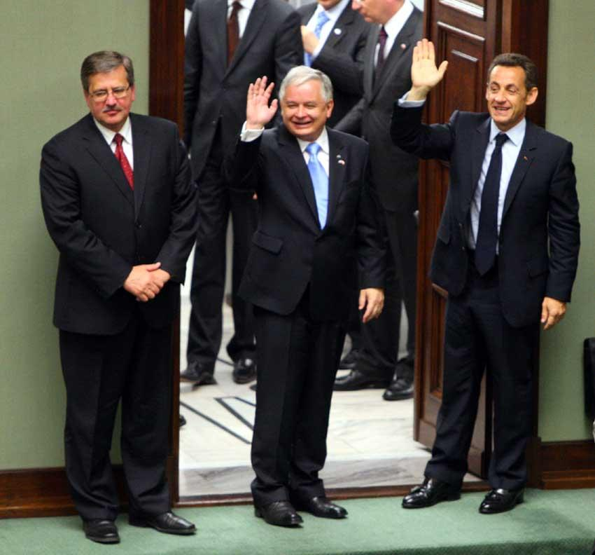 President of France Nicolas Sarkozy (on right)in Polish Sejm with Sejm Marshall Bronisław Komorowski (on left) and president Lech Kaczyński